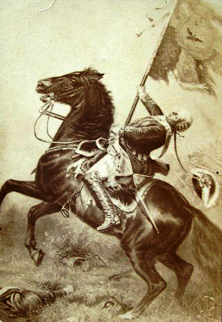 Kurt Christoph von Schwerin, General of Prussia.